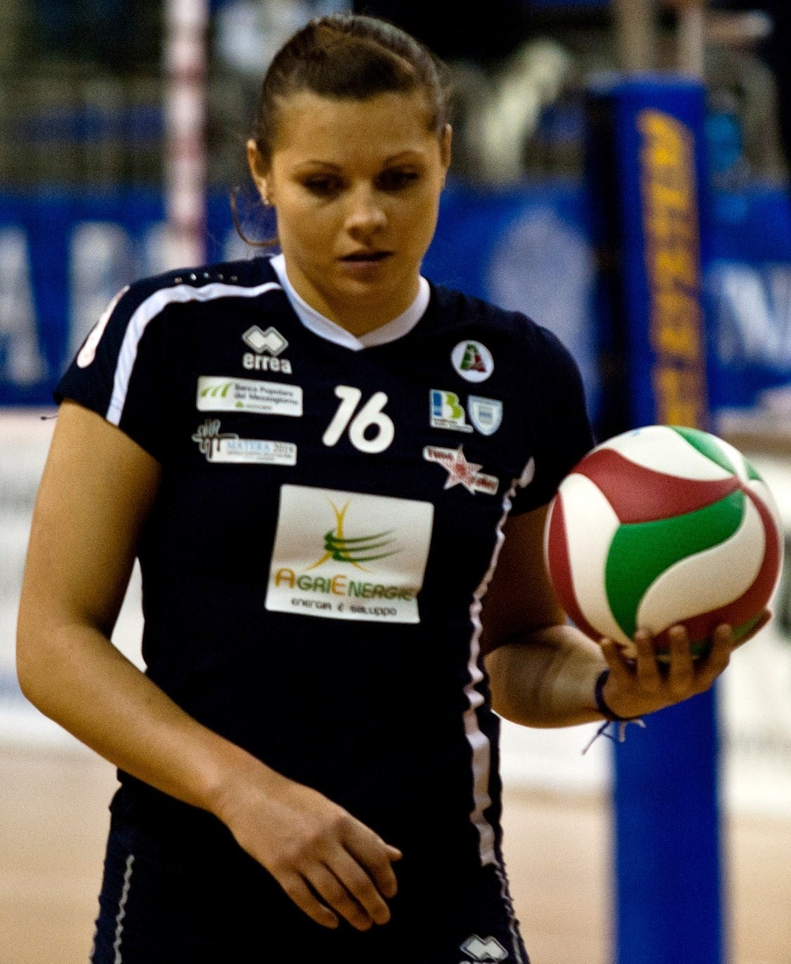 Polish volleyball player Magdalena Tekiel.